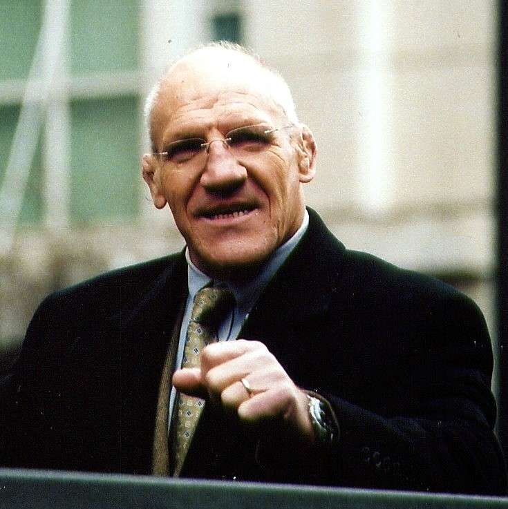 Wrestling legend Bruno Sammartino at the Celebrate the Season Parade in Pittsburgh, PA on 11-26-05